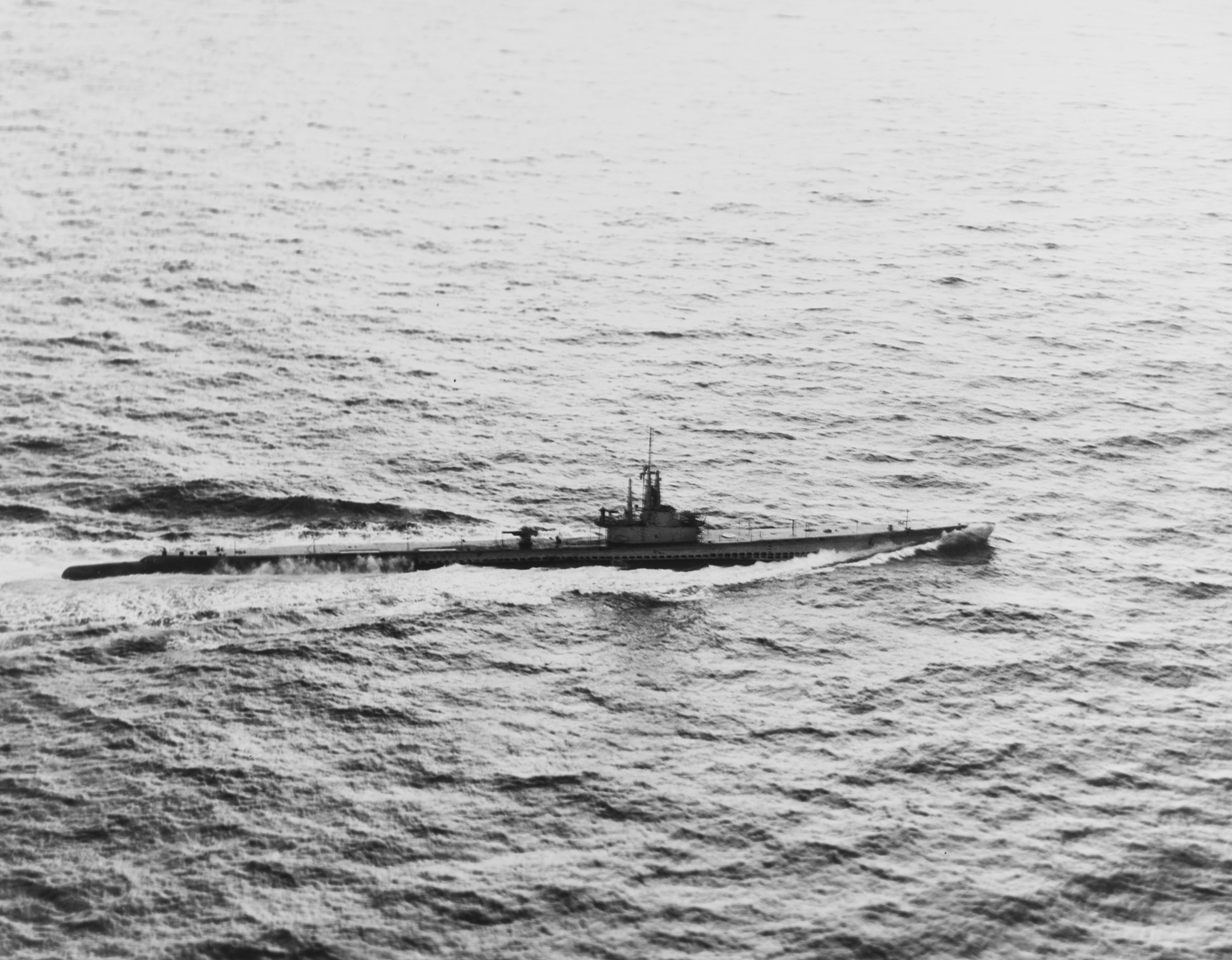 The United States submarine USS Torsk underway, 16 February 1945.